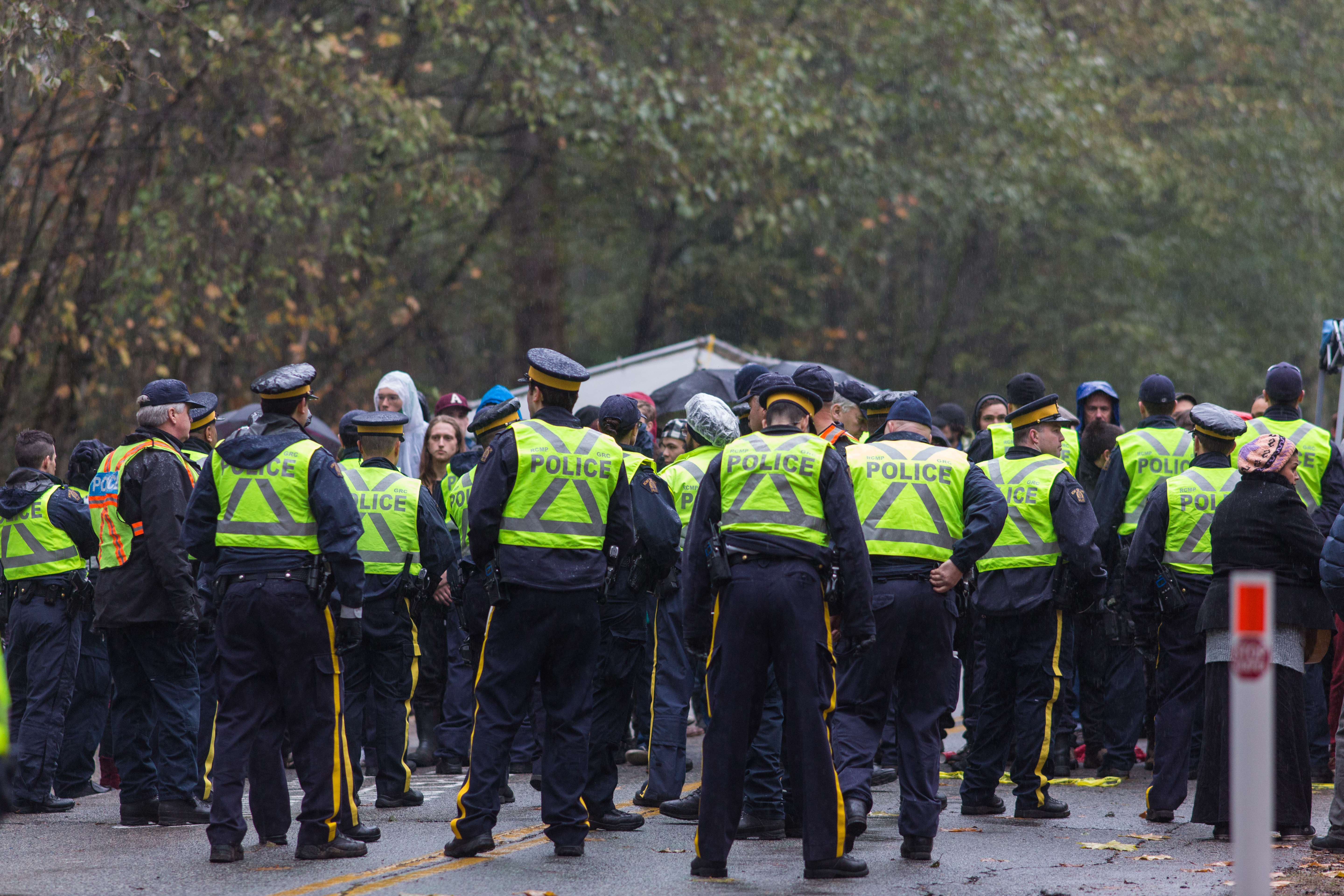 Burnaby Mountain Park. Thursday, November 20th, 2014. The citizen's protest rally against oil giant Kinder Morgan continues on Burnaby Mountain. Several protesters were arrested today.